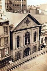 P. L. Sperr, Photograph (1923) of St. Benedict the Moor RC Church on 53rd Street West and 9th Avenue